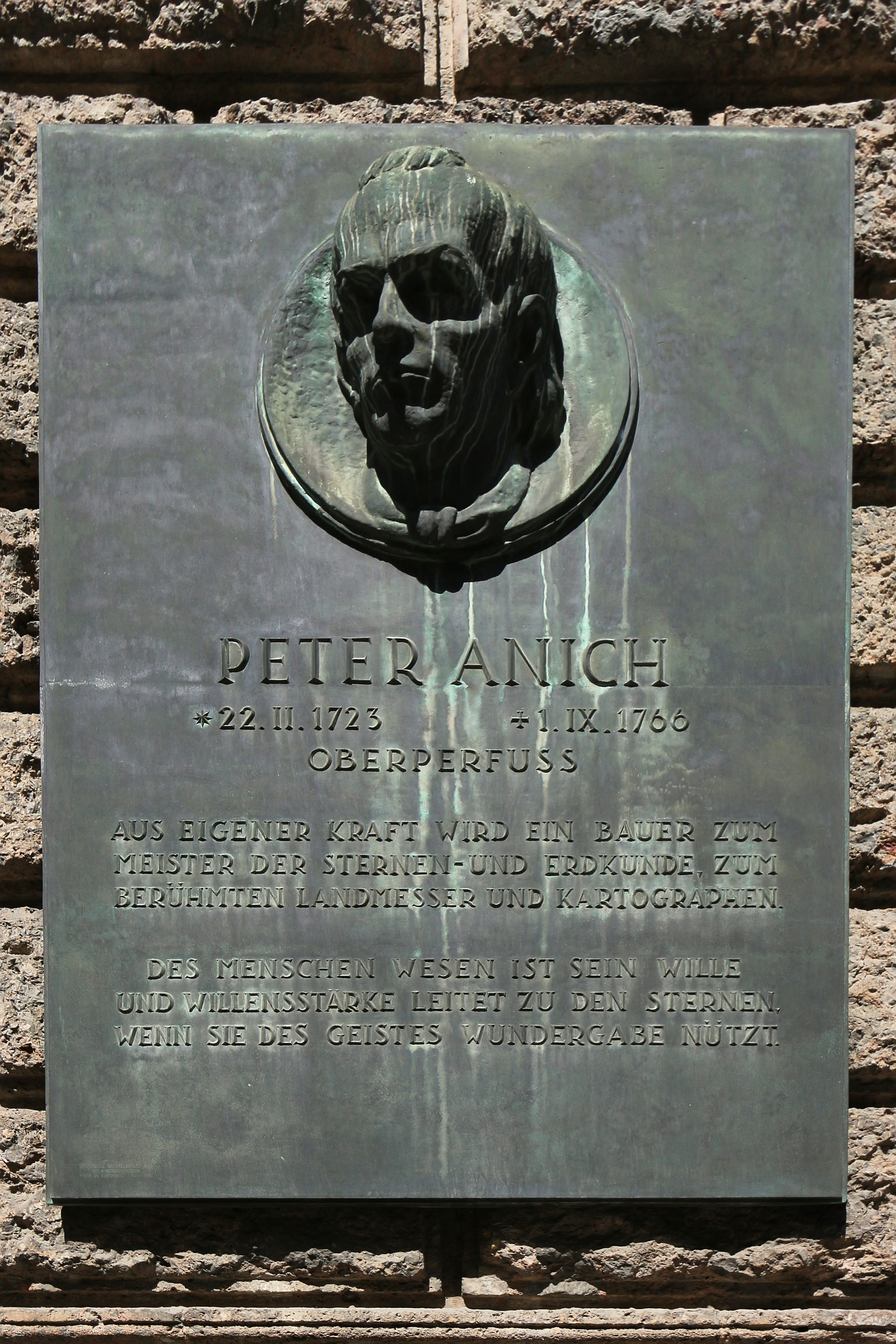 Anichstraße 26 28